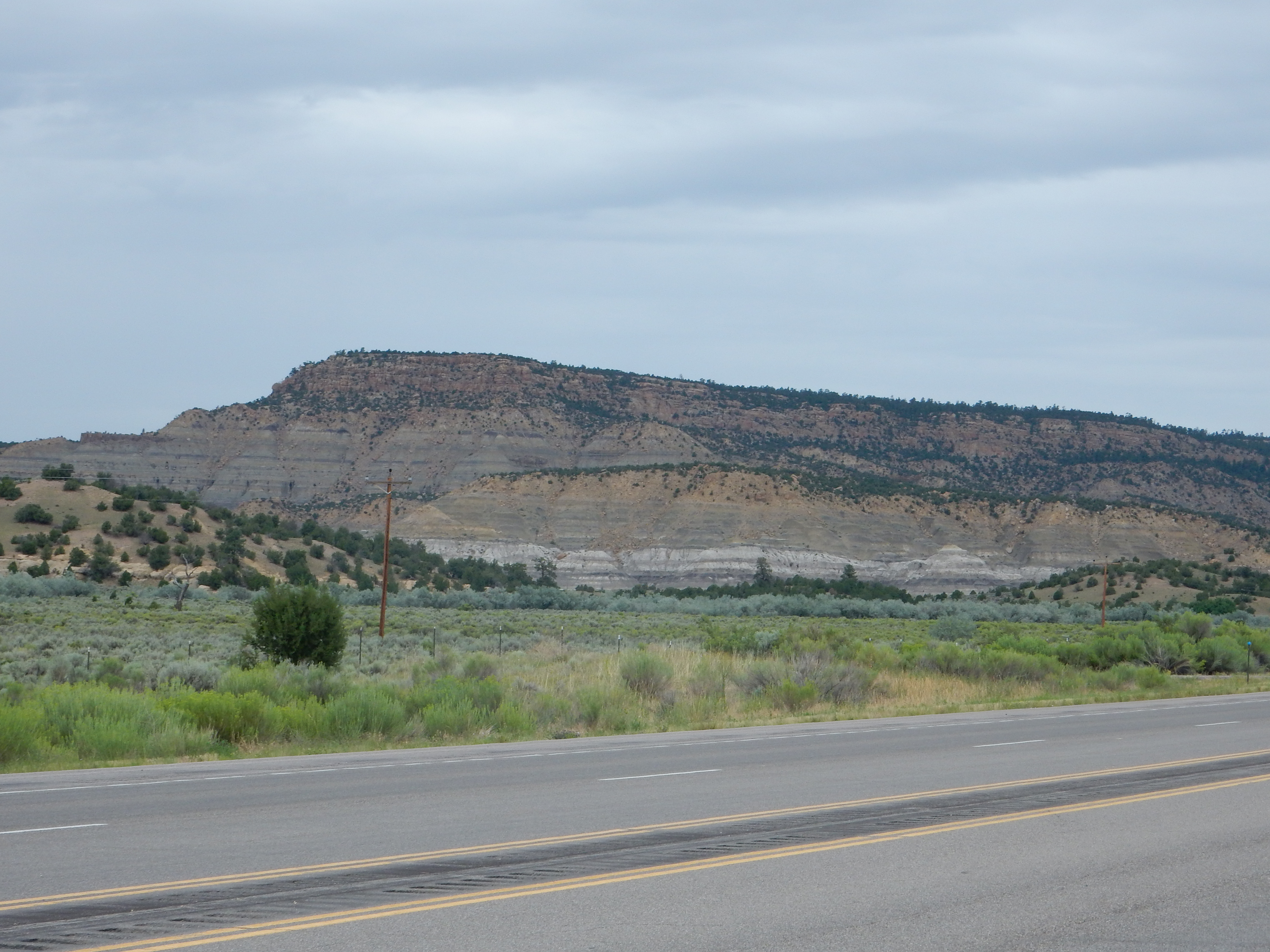 This image shows Mesa de Cuba outside Cuba, New Mexico, which has a cap of San Jose Formation over slopes of Nacimiento Formation.